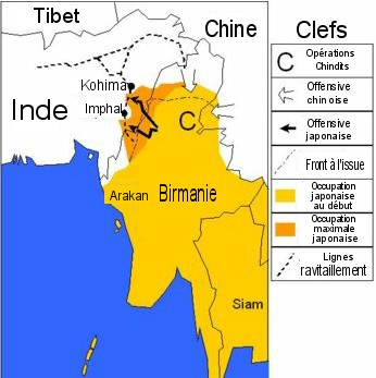 Northern Front in Burma WWII